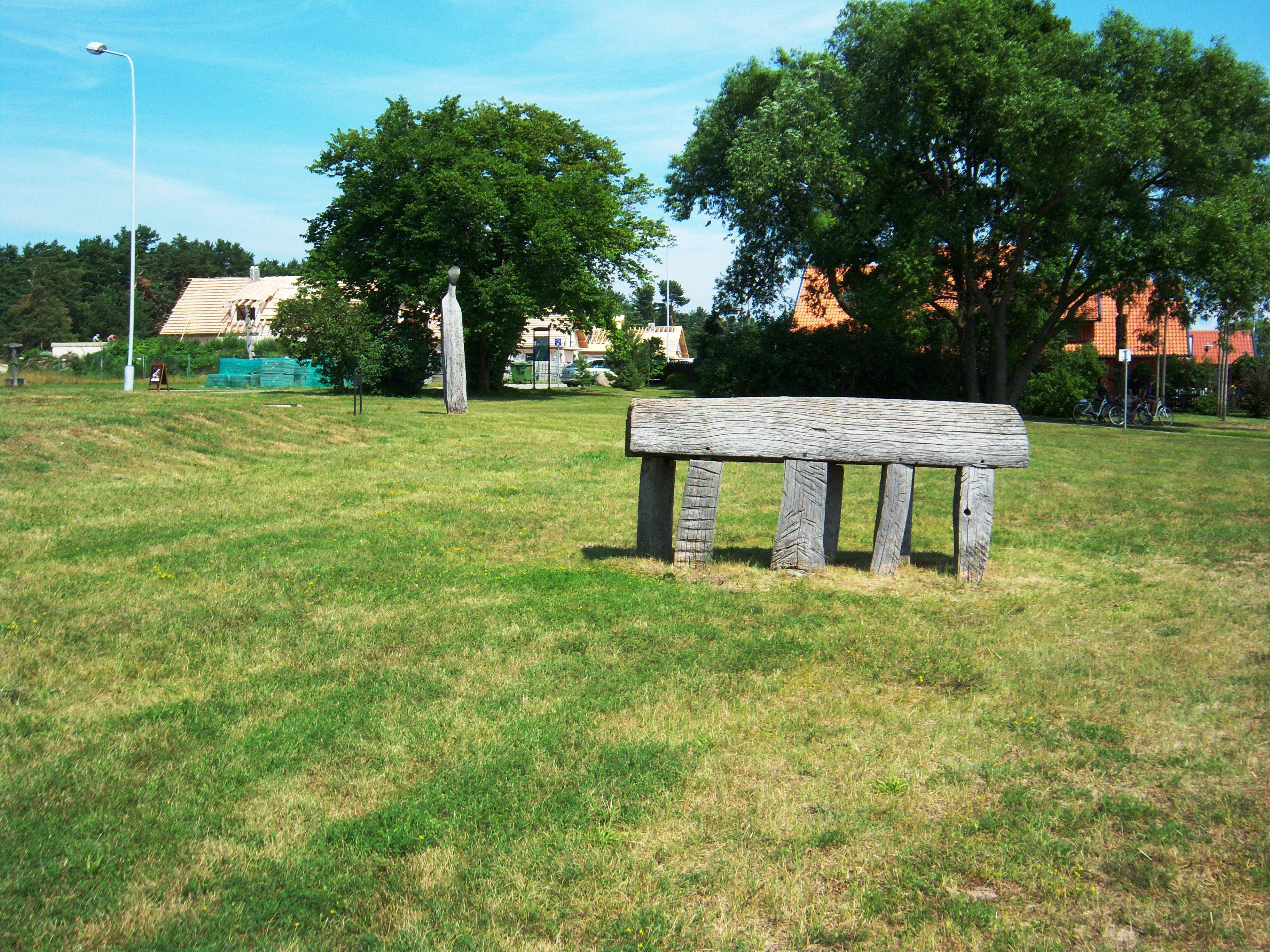 Purvynės Street in Nida, Lithuania